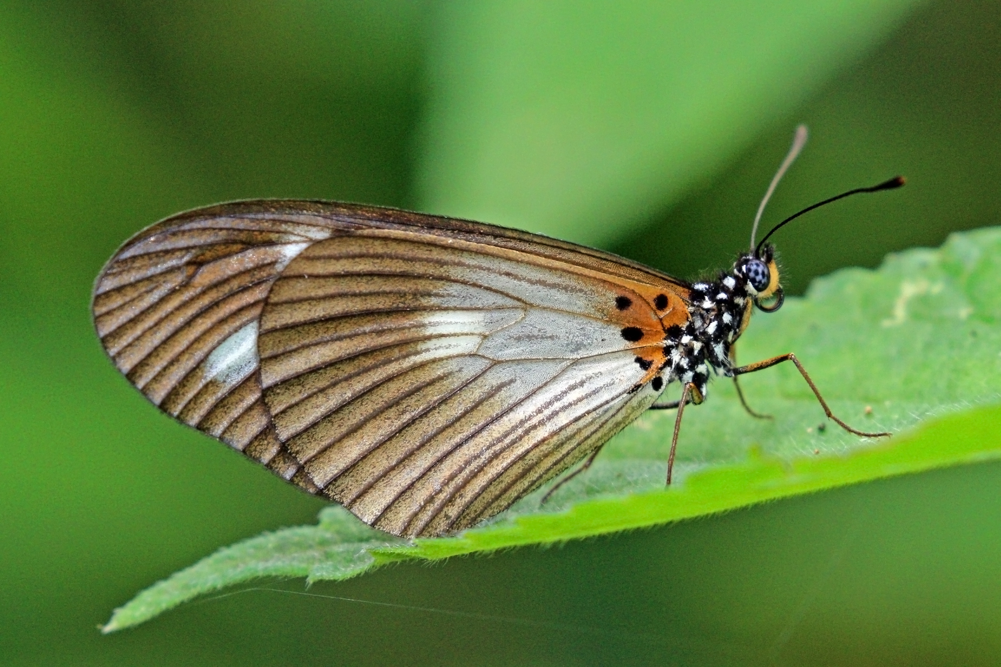 Lycoa acraea (Acraea lycoa), Kibale Forest, Uganda